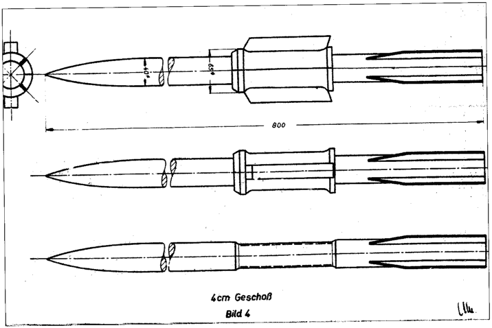 Drawings of electric gun (rail gun, or linear motor cannon) projectiles from a German report.